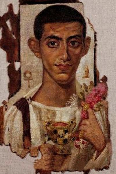 Encaustic funerary portrait of an Egyptian man named Ammonios from the city of Antinopolis, dated to between c. 225 and c. 250 AD